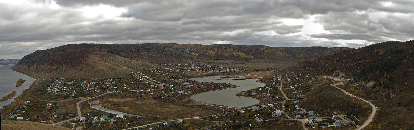 Panorama of Shiryaevo, Samara Oblast. View from Mtn Popov of Zhiguli Mountains